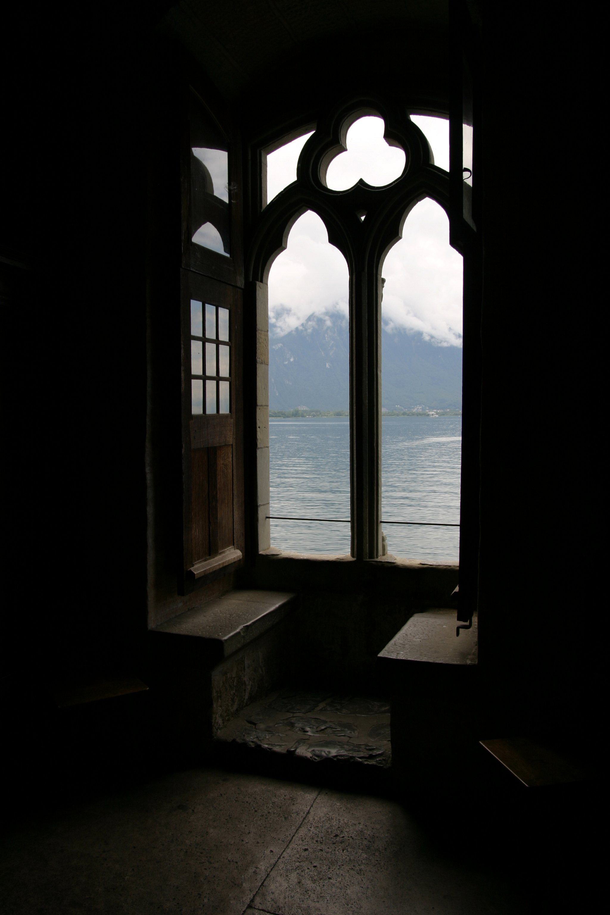 Castel of Chillon